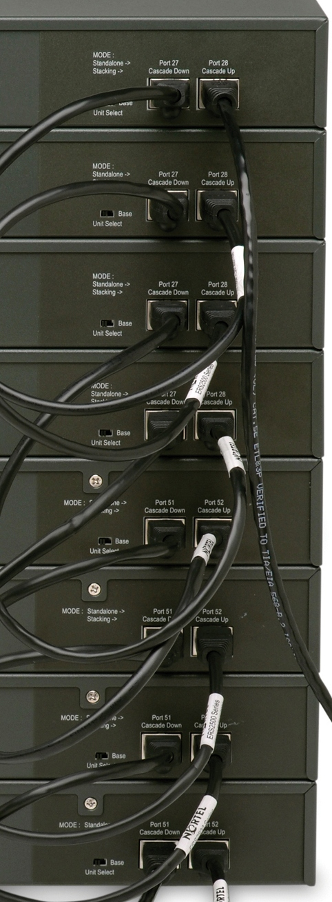 A rear view of a stack of 8 ERS-2500 switches with the stacking cables